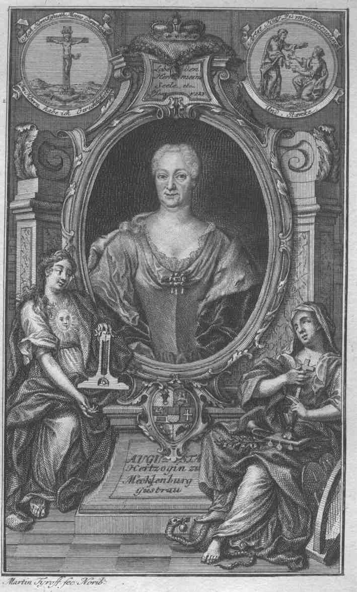 Portrait of Auguste zu Mecklenburg